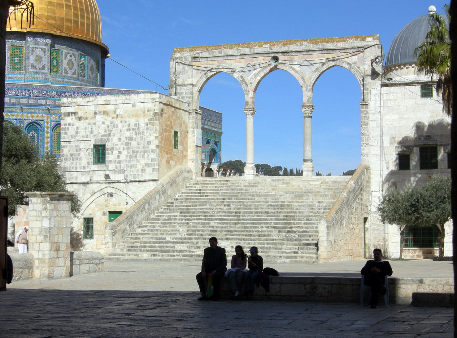 South-west qanatir, Temple Mount, Jerusalem.